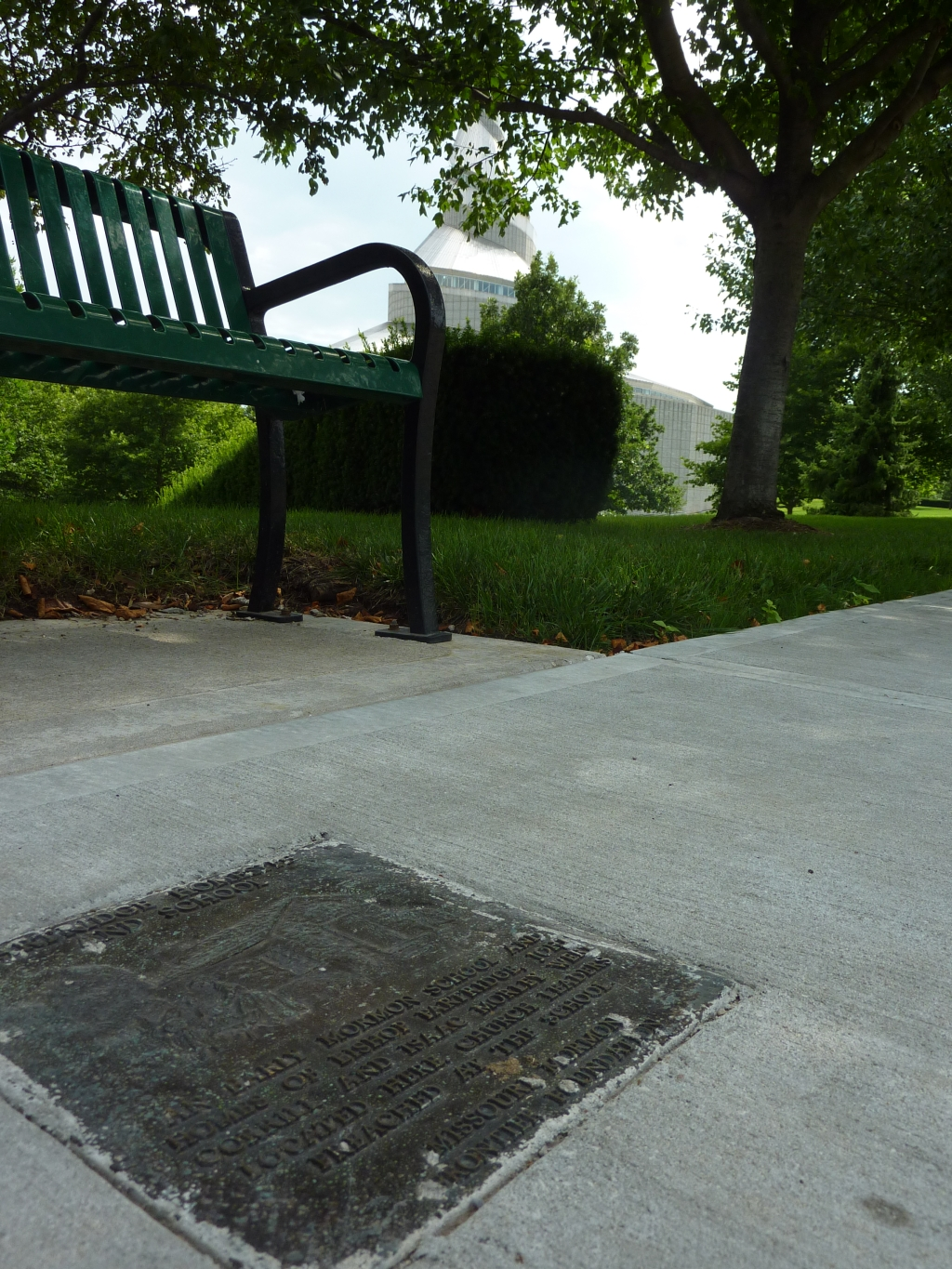 photo taken in the July 2010 shows marker for Edward Partridge home/church with Community of Christ Temple in background.